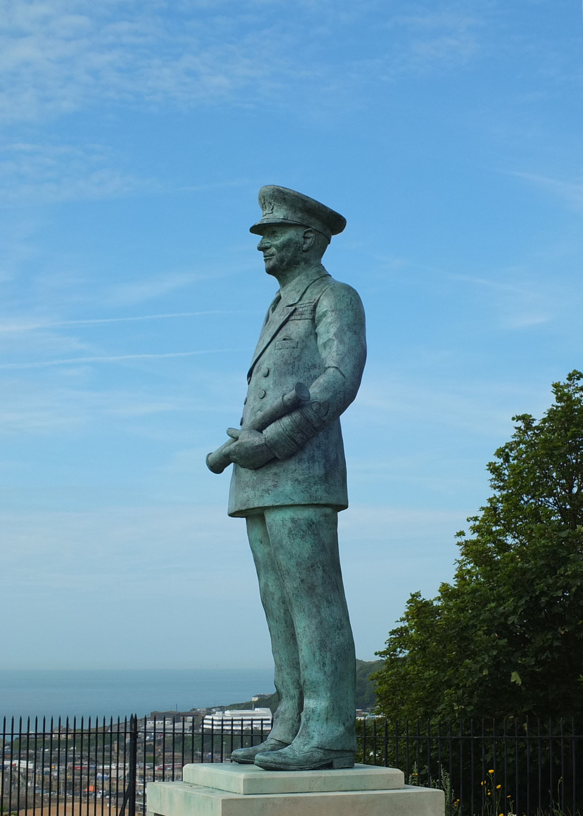 Statue of Admiral Sir Bertram Home Ramsay (1883 - 1945) in the grounds of Dover Castle near the edge of the White Cliffs of Dover, overlooking the harbour and English Channel beyond. The sculpture of Admiral Ramsay holding a lowered telescope was created by Stephen Melton of Ramsgate and unveiled by Prince Philip, Duke of Edinburgh in November, 2000. The front panel on the plinth reads: " In memory of Admiral Sir Bertram Ramsay KCB. KBE. MBO. 1883-1945, Vice Admiral Dover, 1939-42, C-in-C Allied Naval Expeditionary Force June 1944 and of those who died in the Dunkirk and Normandy operations." The rear panel: " I ploughed a passage through the foam, Dunkirk and Deal - Dieppe and Dover. I brought the flower of Britain home, And took the fruit of freedom over. (A. P. Herbert)" The two side panels are bronze reliefs of battle scenes.